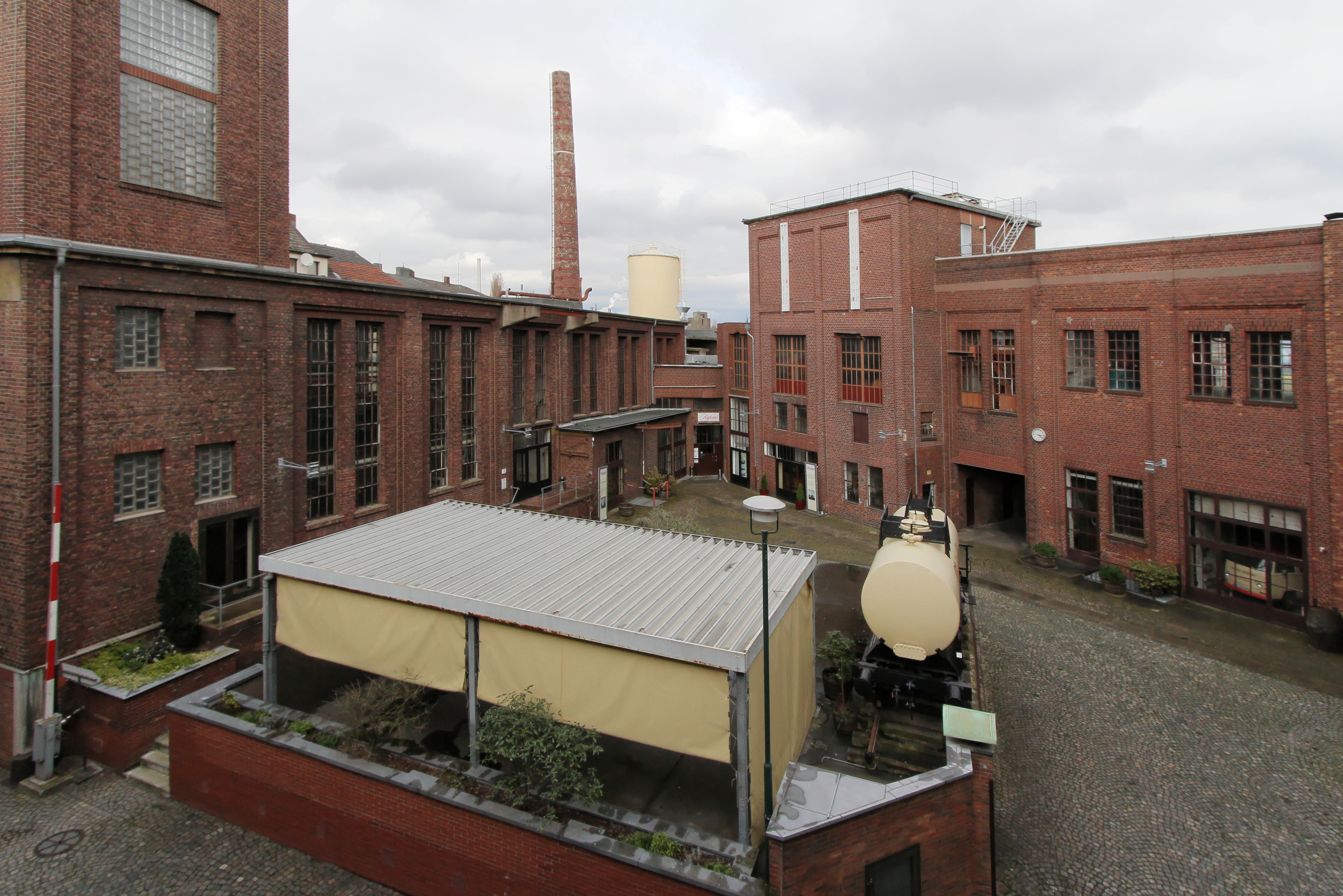 Krefeld (North Rhine-Westphalia, Germany) – Uerdingen – Dujardin Brandy Distillery